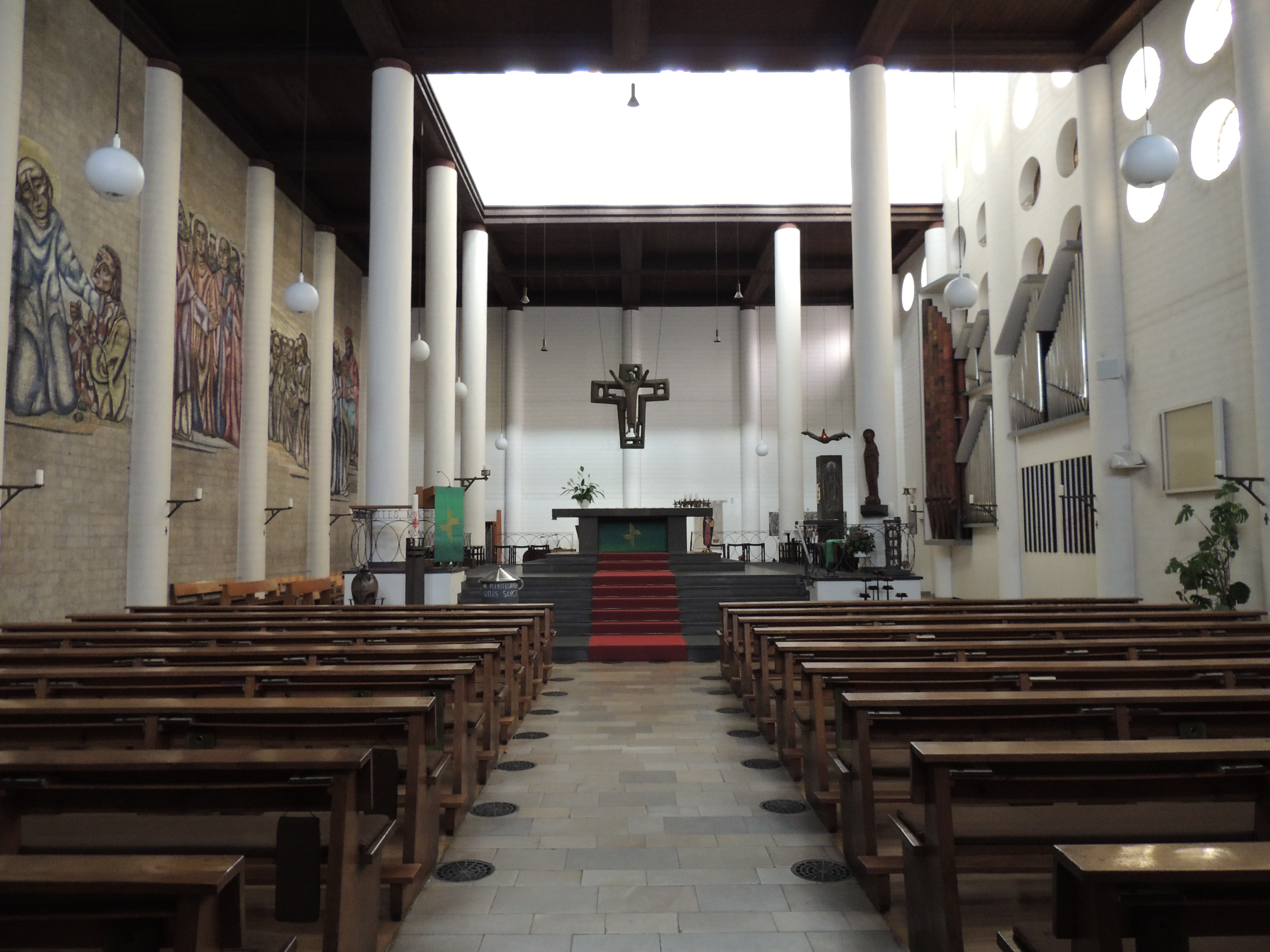 Interior of the Heilig-Geist-Kirche in Frankfurt am Main-Riederwald